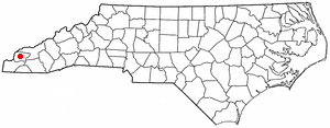 Category:North Carolina Dot Maps